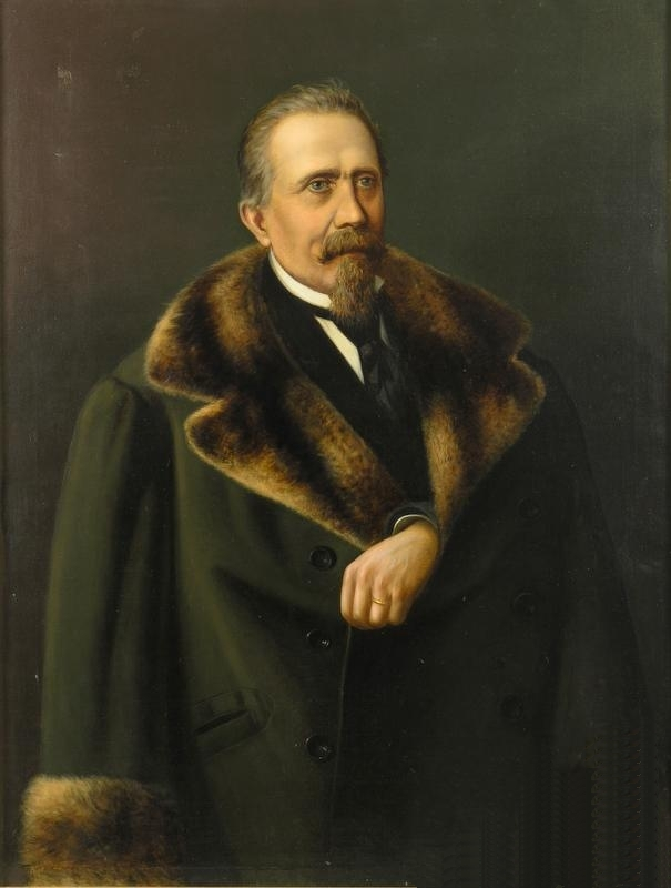 Hungarian Karoly Mayrberger music teacher, conductor. Most outstanding student of Géza Zichy.